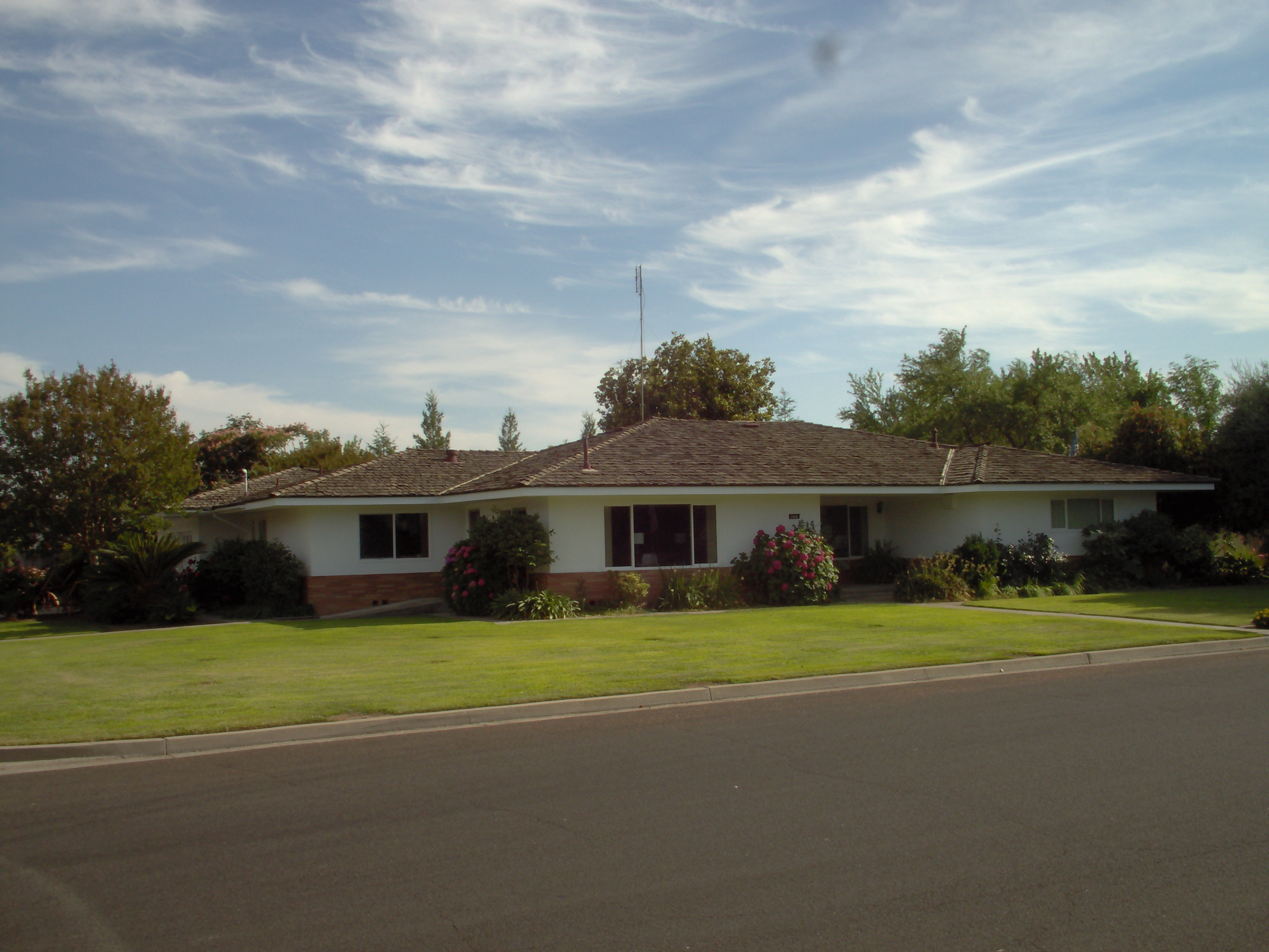 1966 ranch style house in California. 2500 square feet, 3 bedrooms, 2.5 baths, 1/2 acre lot. Note asymmetrical design, long low roofline, raised brick foundation of Roman Bricks, heavy cedar shake roof, rambling nature of design that wraps around the lot, large eaves, stucco walls, large windows with simple frames and large expansive lot. This house carries most of the classic features of the style.